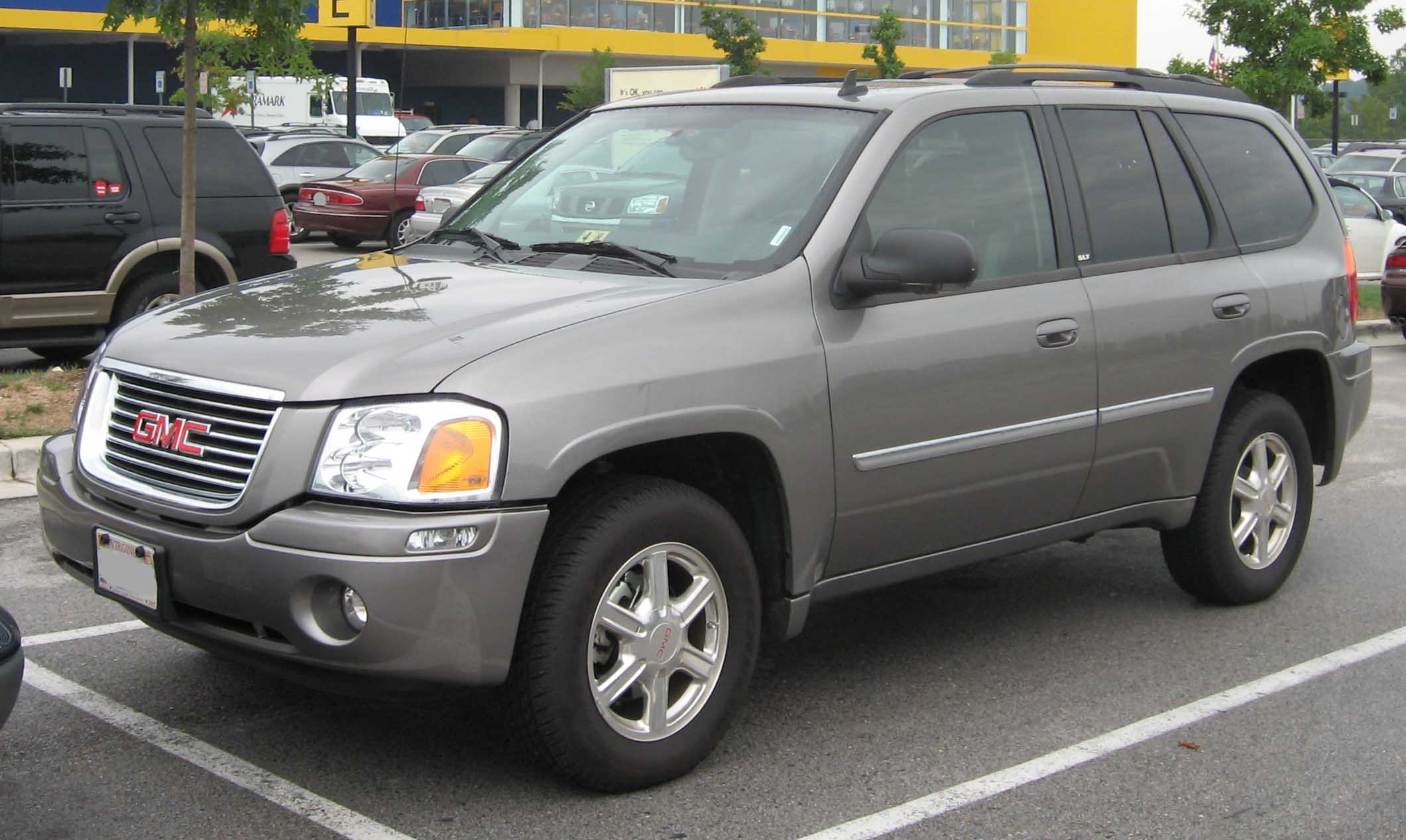 2006-2008 GMC Envoy photographed in College Park, Maryland, USA.